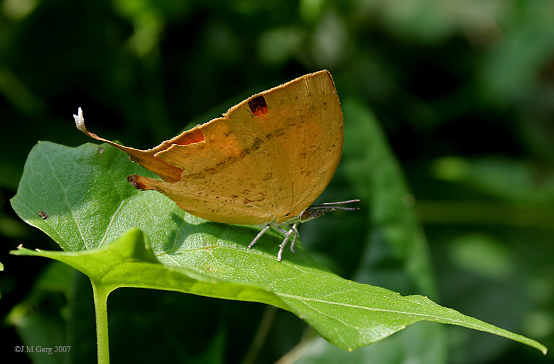 Yamfly Loxura atymnus. At Narenderpur near Kolkata, India